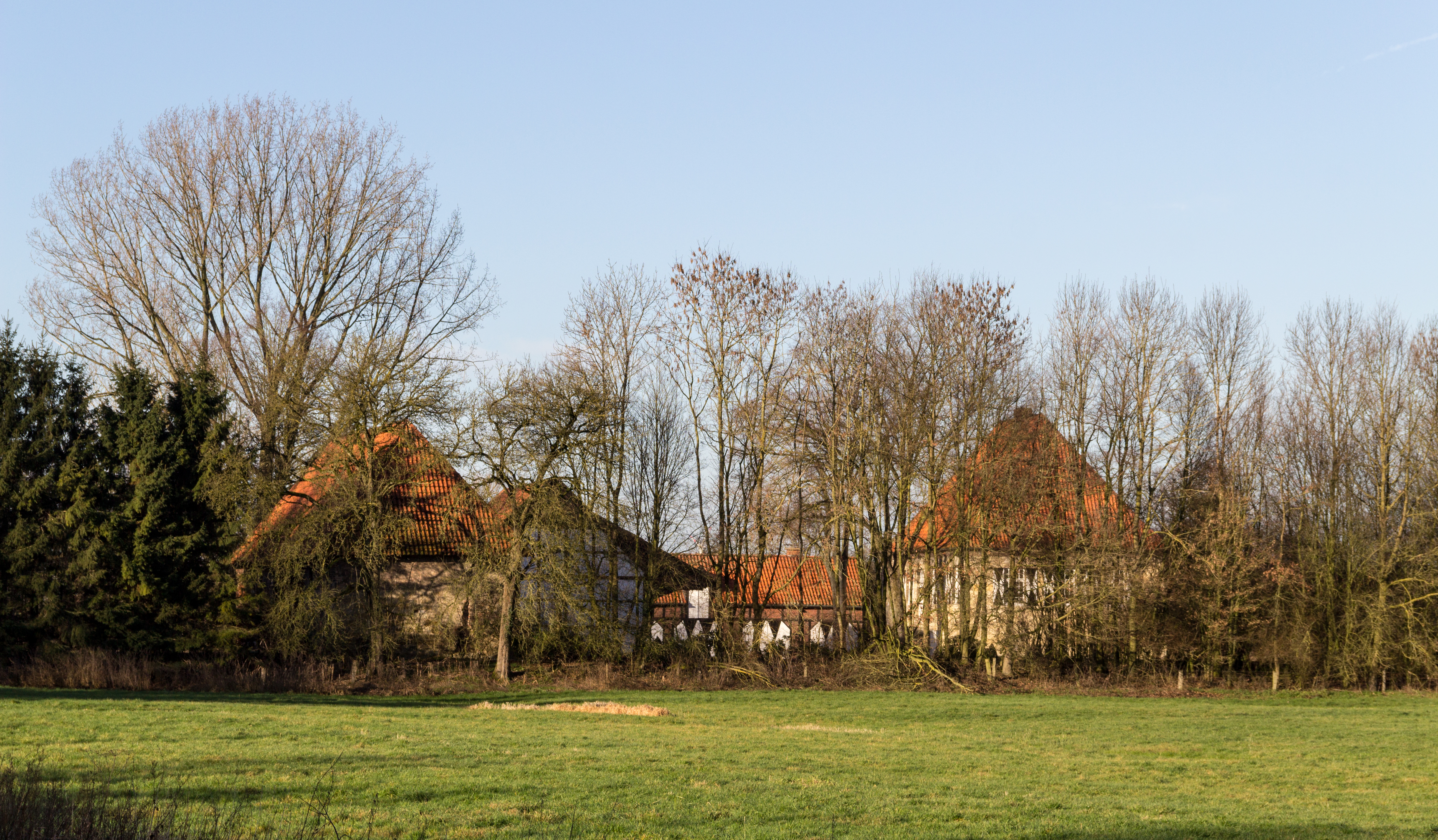 Empte Manor, Kirchspiel, Dülmen, North Rhine-Westphalia, Germany This image shows a heritage building in Germany, located in the North Rhine-Westphalian city Dülmen (no. 44).